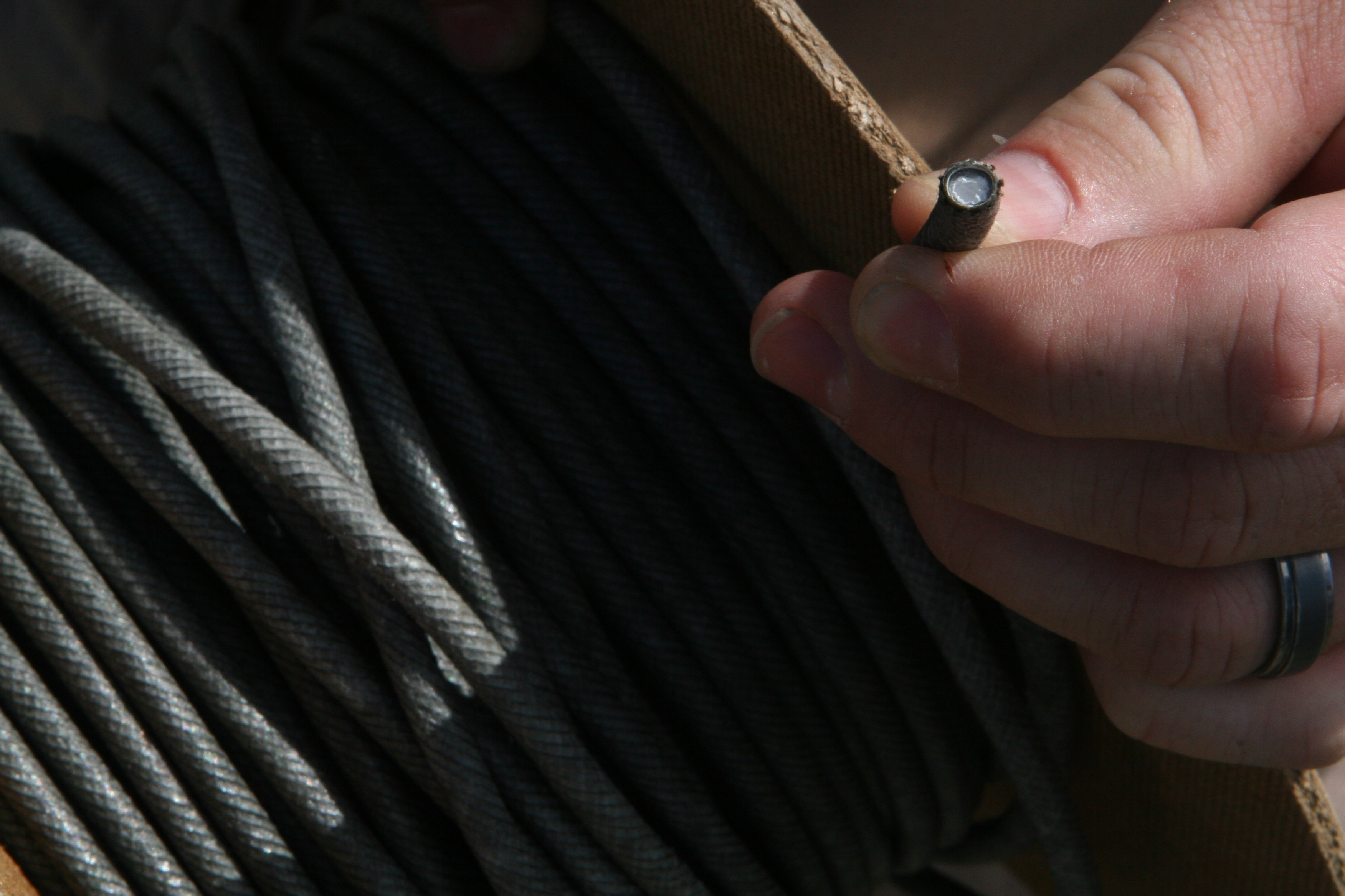 A U.S. Marine Corps explosive ordnance disposal technician prepares a reinforced detonation cord filled with Pentaerythritol Tetranitrate (PETN) for a simulated aerial assault at Marine Corps Air Station Kaneohe Bay, Hawaii, Aug. 30, 2010. PETN is a stable explosive and is detonated by shockwave or heat.